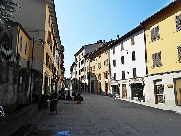 San Lorenzo street